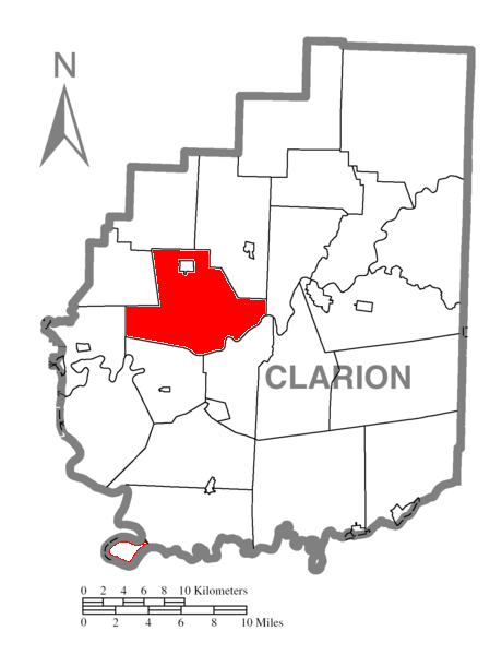 A map of Clarion County showing Beaver Township, Pennsylvania (alternate) highlighted on the map.